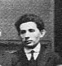 Photograph taken in 1919 of the chiefs and administrative heads of the New York Public Library. Top row (left to right): Henryk Arctowski, C. H. A. Bjerregaard, A. S. Friedus, Harry J. Grumpelt, Isabella M. Cooper, W. B. A. Taylor, Frank A. Waite, Mary Frank, Otto Kinkeldey, R. R. Finster, Henry C. Strippel, Avrahm Yarmolinsky. Center row: John Archer, John H. Fedeler, Florence Overton, I. Ferris Lockwood, Axel Moth, W. B. Gamble, Keyes D. Metcalf, R. W. Henderson, Frank Weitenkampf, Annie Carroll Moore, C. C. Williamson, V. H. Paltsits. Bottom row: Richard Gottheil, Annie C. Tompkins, Edmund L. Pearson, Wilberforce Eames, Charles F. McCombs, H. B. Lydenberg, E. H. Anderson, F. F. Hopper, Rose G. Murray, Lucille Goldthwaite, Alice Bunting, Lenore Power.